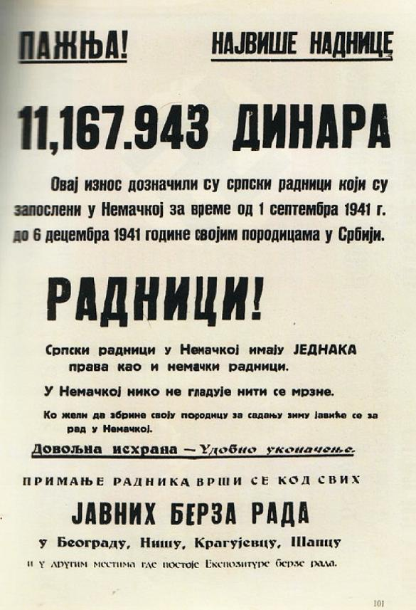 Propaganda leaflet by Nedić's goverment